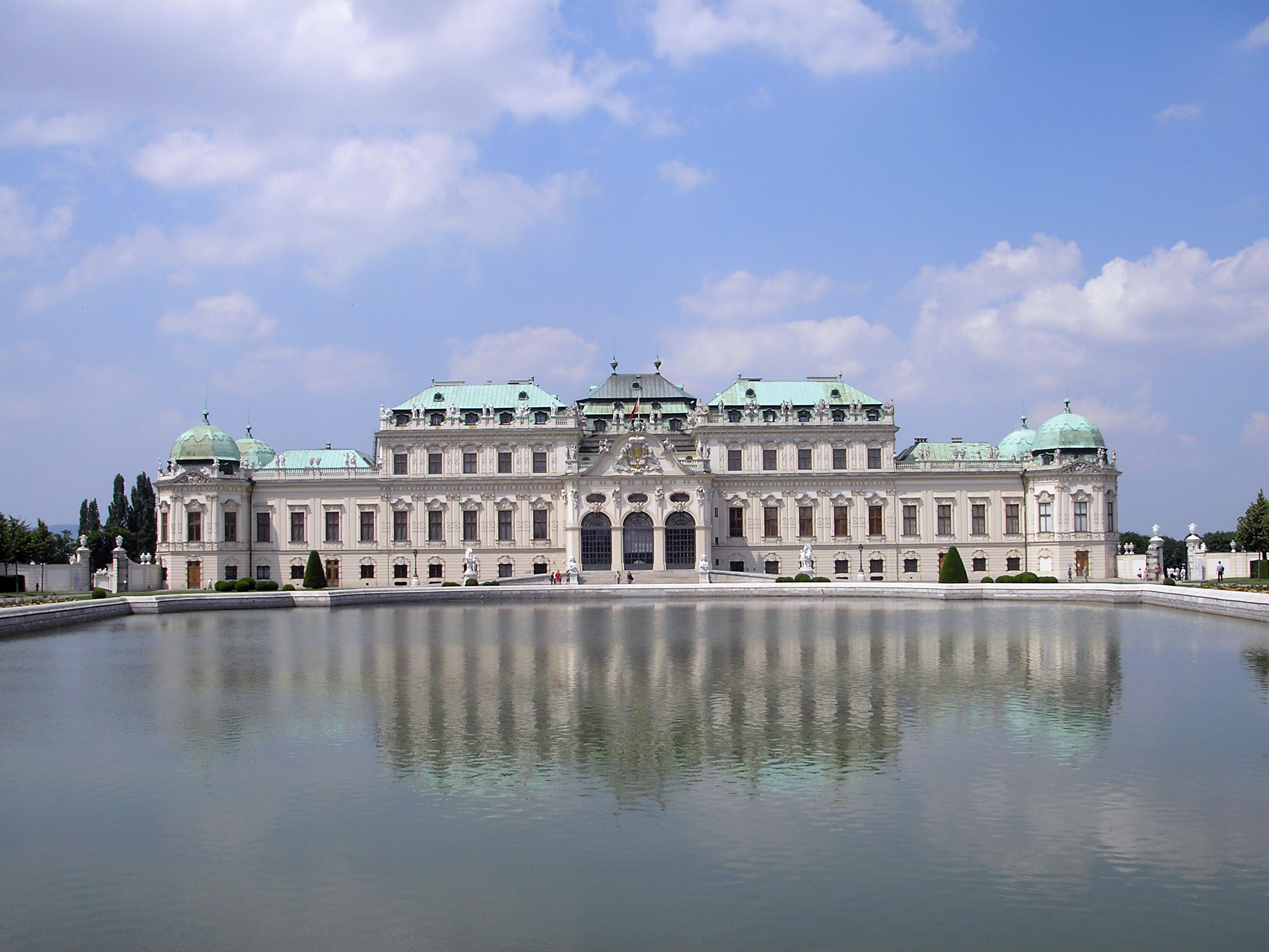 Belvedere palace in Vienna. Constructed in the baroque era for Prince Eugene of Savoy. This was his summer residence.